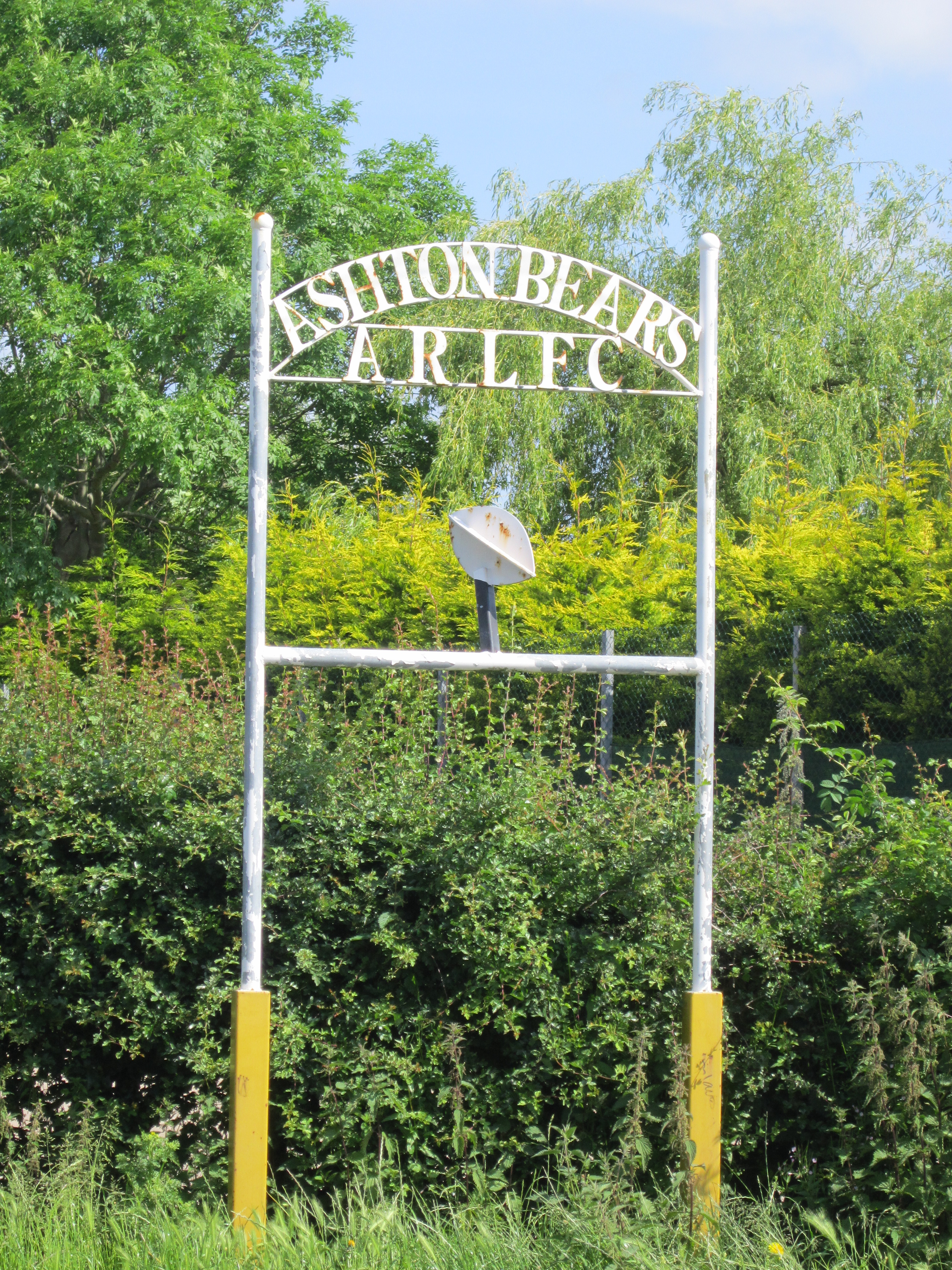 Sign at Ashton Bears Amateur Rugby League Football Club, Low Bank Road, Ashton-in-Makerfield, Greater Manchester, England.